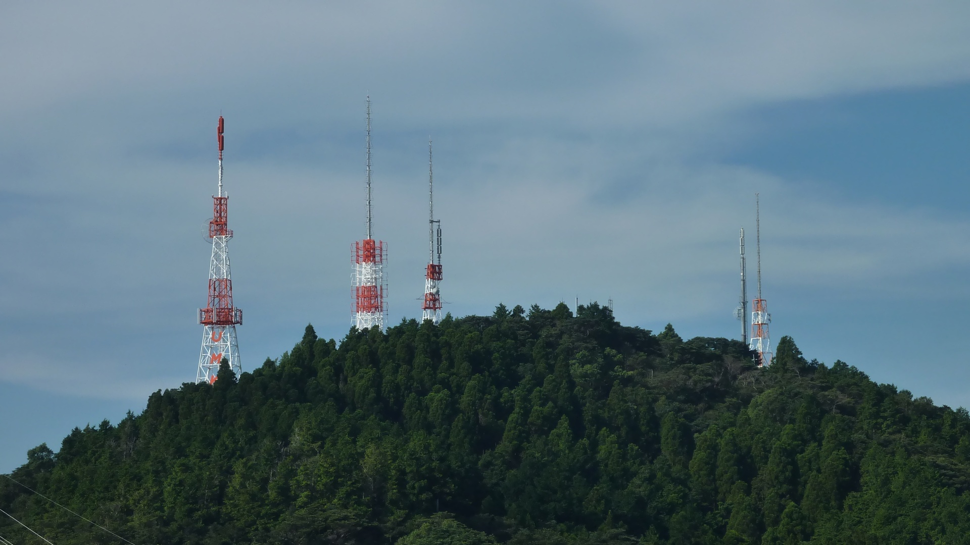 Top of Mt.Atago (Nobeoka City, Miyazaki, Japan) - Nobeoka TV Transmitting Station